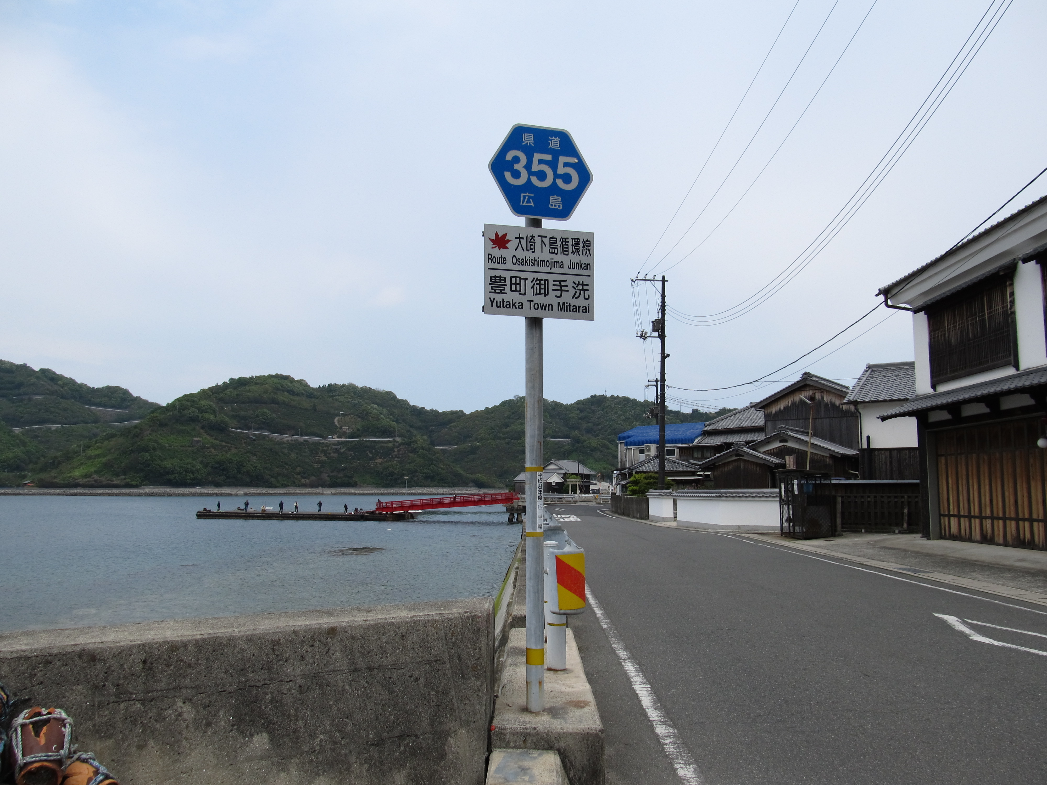 View from the island Ōsaki-shimojima in Hiroshima Prefecture, Japan. Citrus groves can be seen on the hillside.